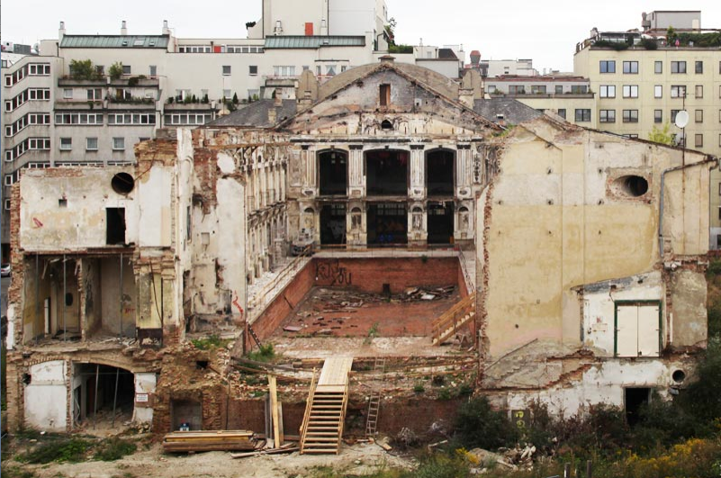 Sofiensaal Vienna